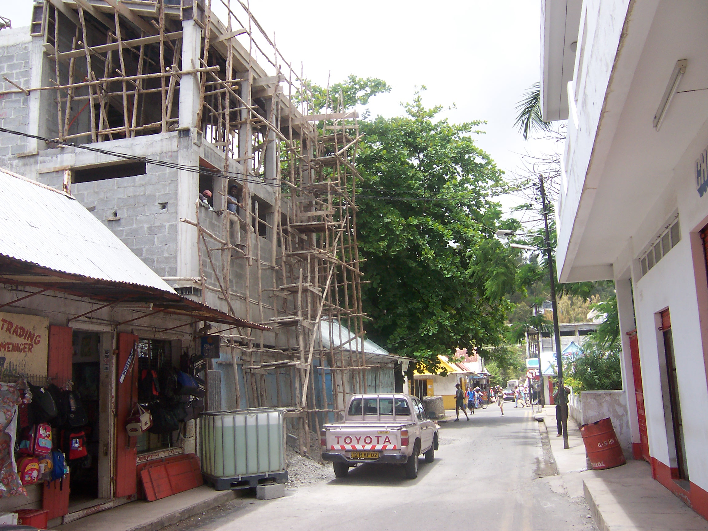 A street in Port-Mathurin, Rodrigues